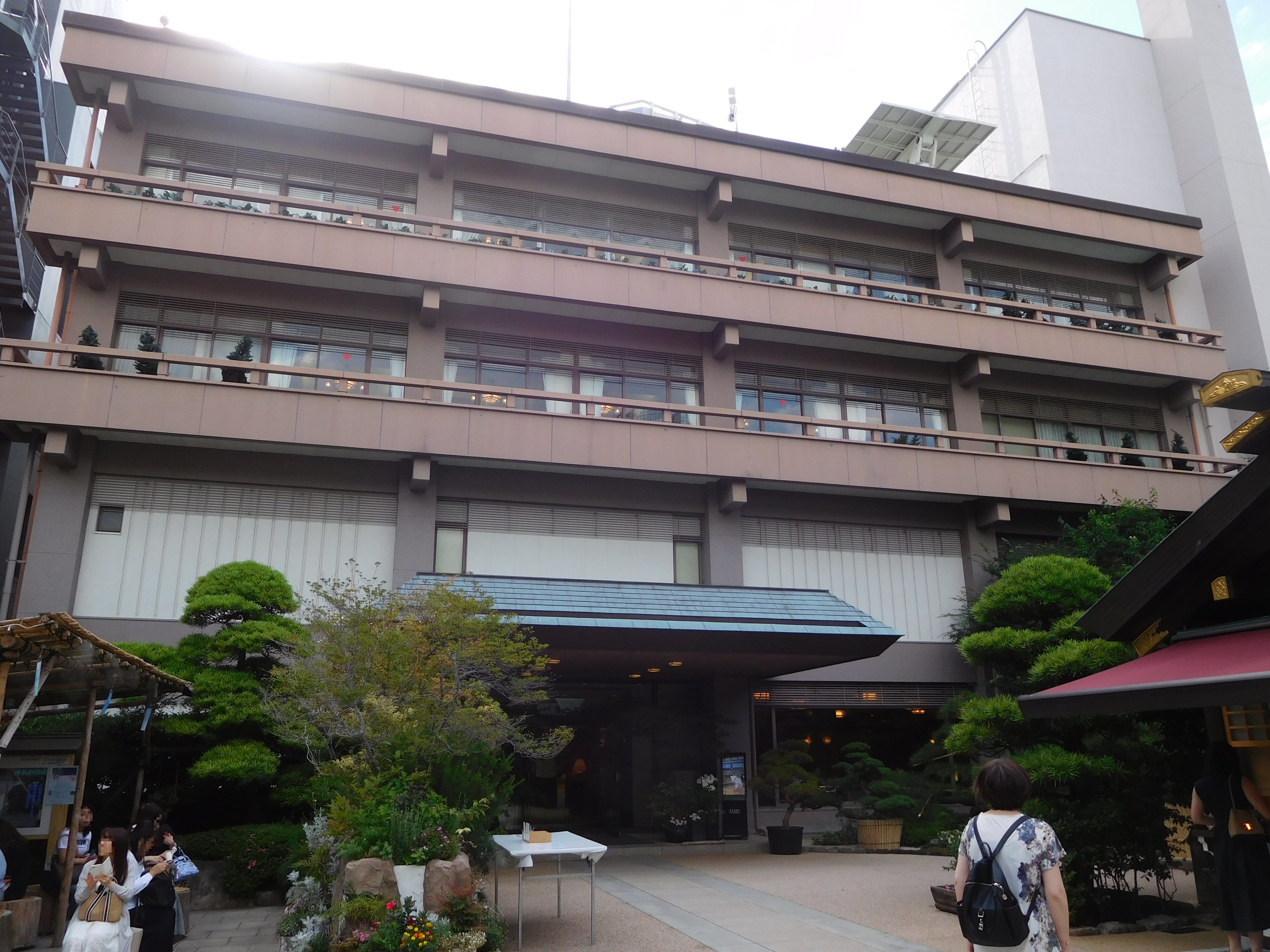 This is Matsuya Salon of Tokyo Daijingu in Chiyoda, Tokyo, Japan. It is used for Shinto-style wedding.